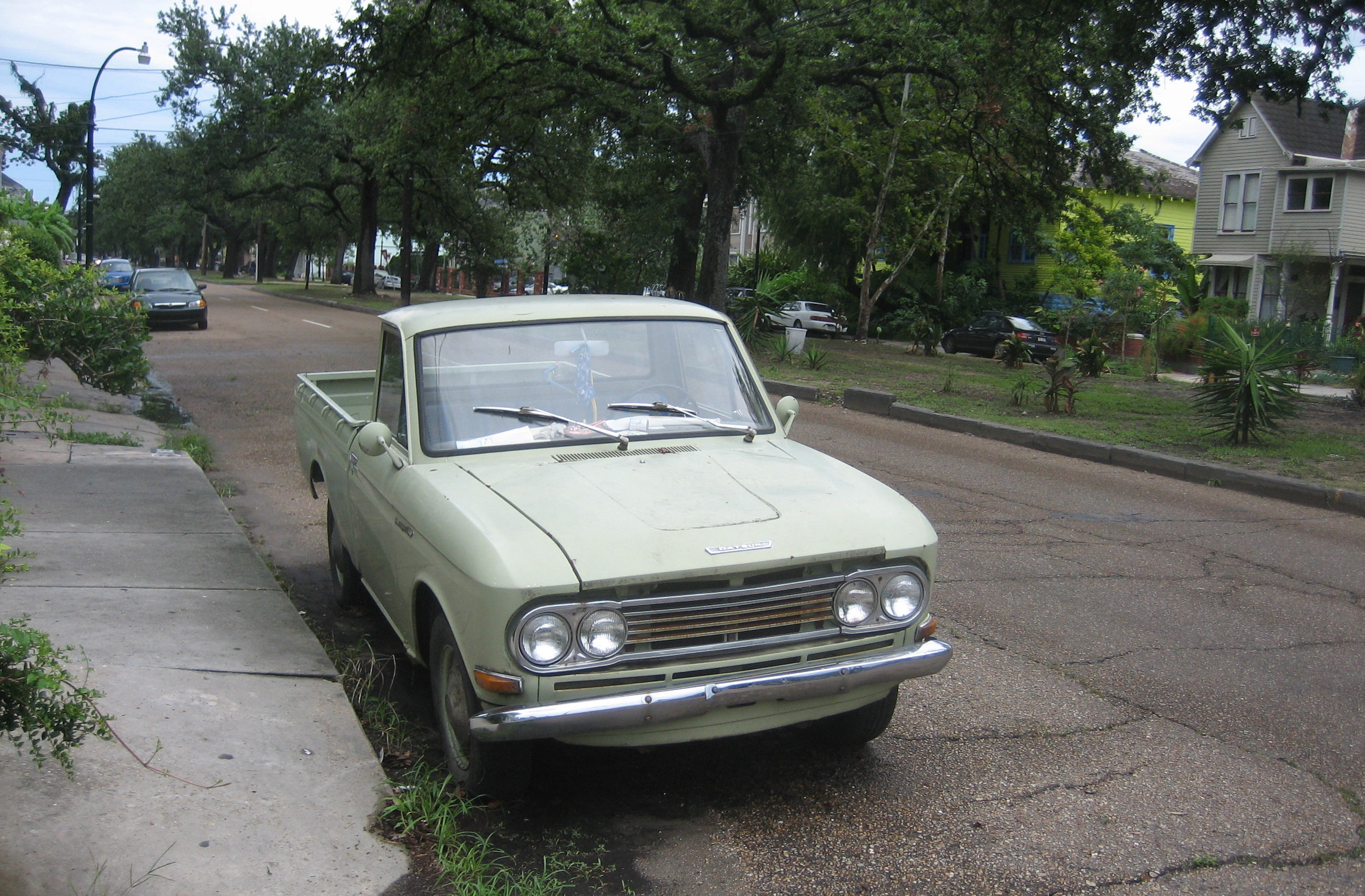 Datsun 1300 pickup on Esplanade Avenue, New Orleans Photo by Infrogmation, July 2007